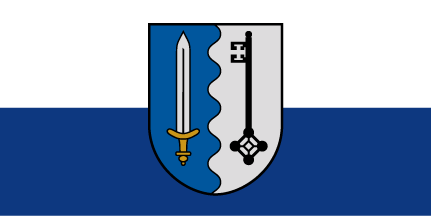 Flag of Ludza Municipality, Latvia